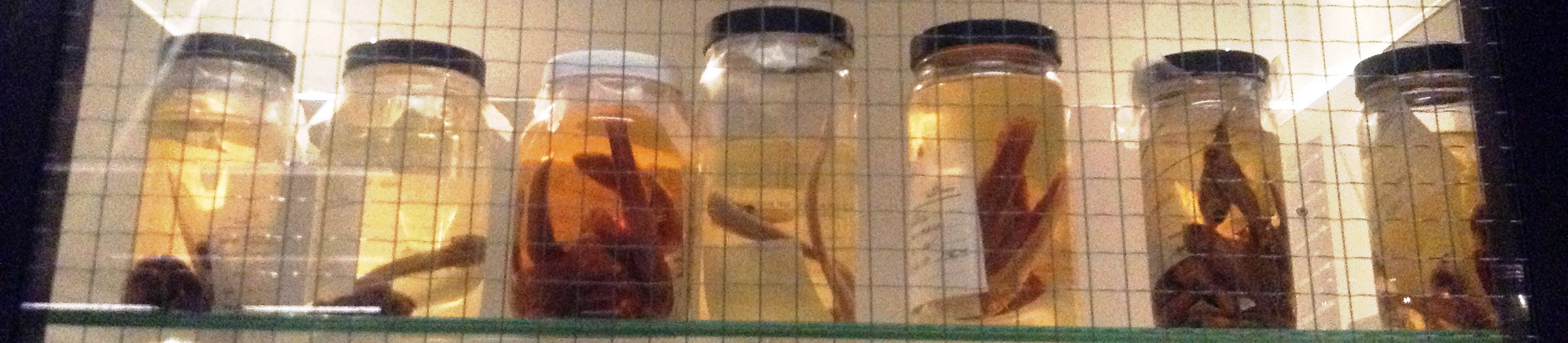 Beaty Biodiversity Museum LocationVancouver, British Columbia, CanadaCoordinates49° 15′ 48.96″ N, 123° 15′ 05.04″ W WebsiteBeaty Biodiversity Museum